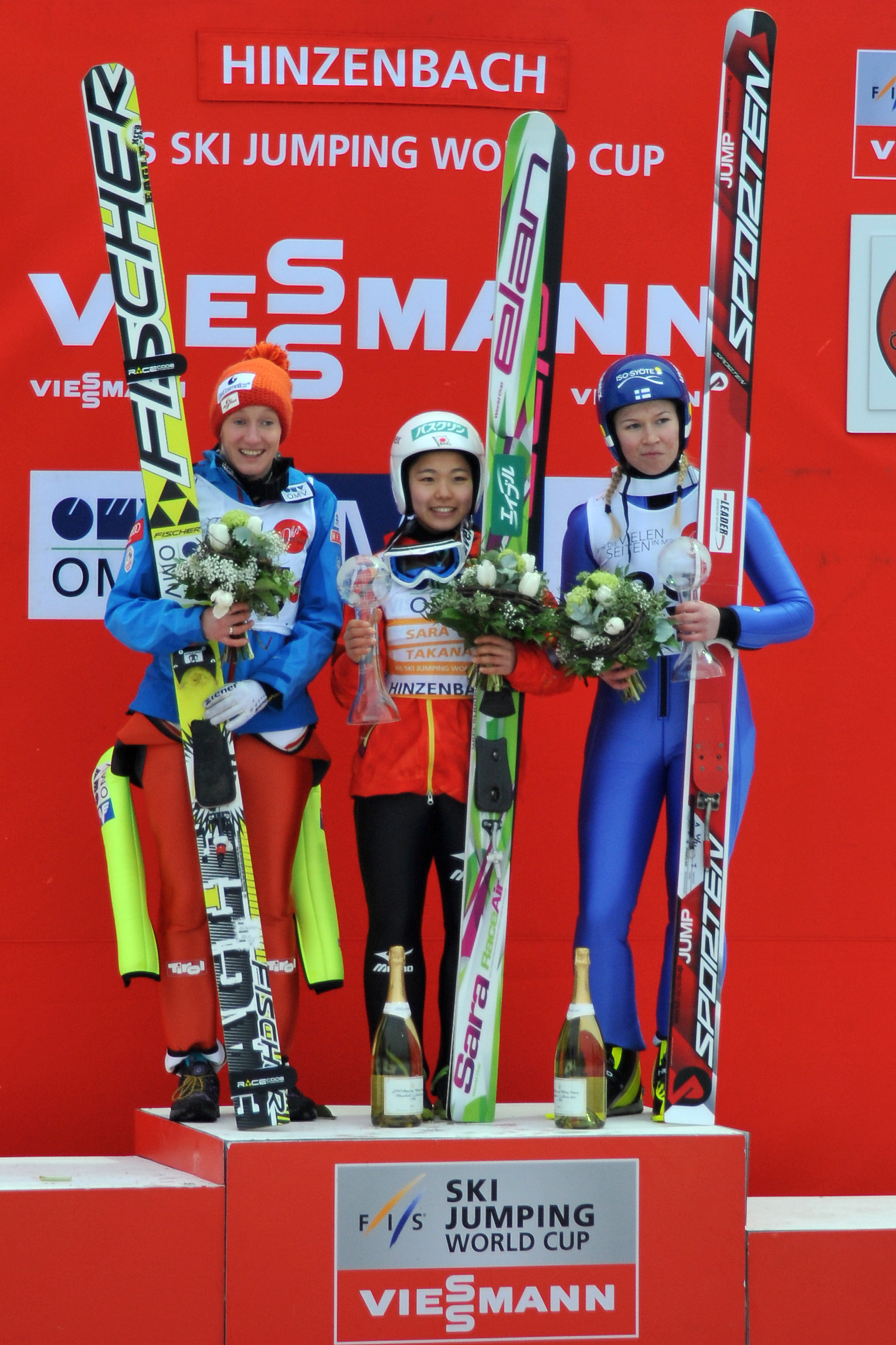 FIS Ski Jumping World Cup Ladies 14th World Cup Competition Normal Hill Individual Hinzenbach (AUT) Sun 2 Feb 2014: Siegerehrung: Sara Takanashi, Daniela Iraschko-Stolz, Julia Kykkänen